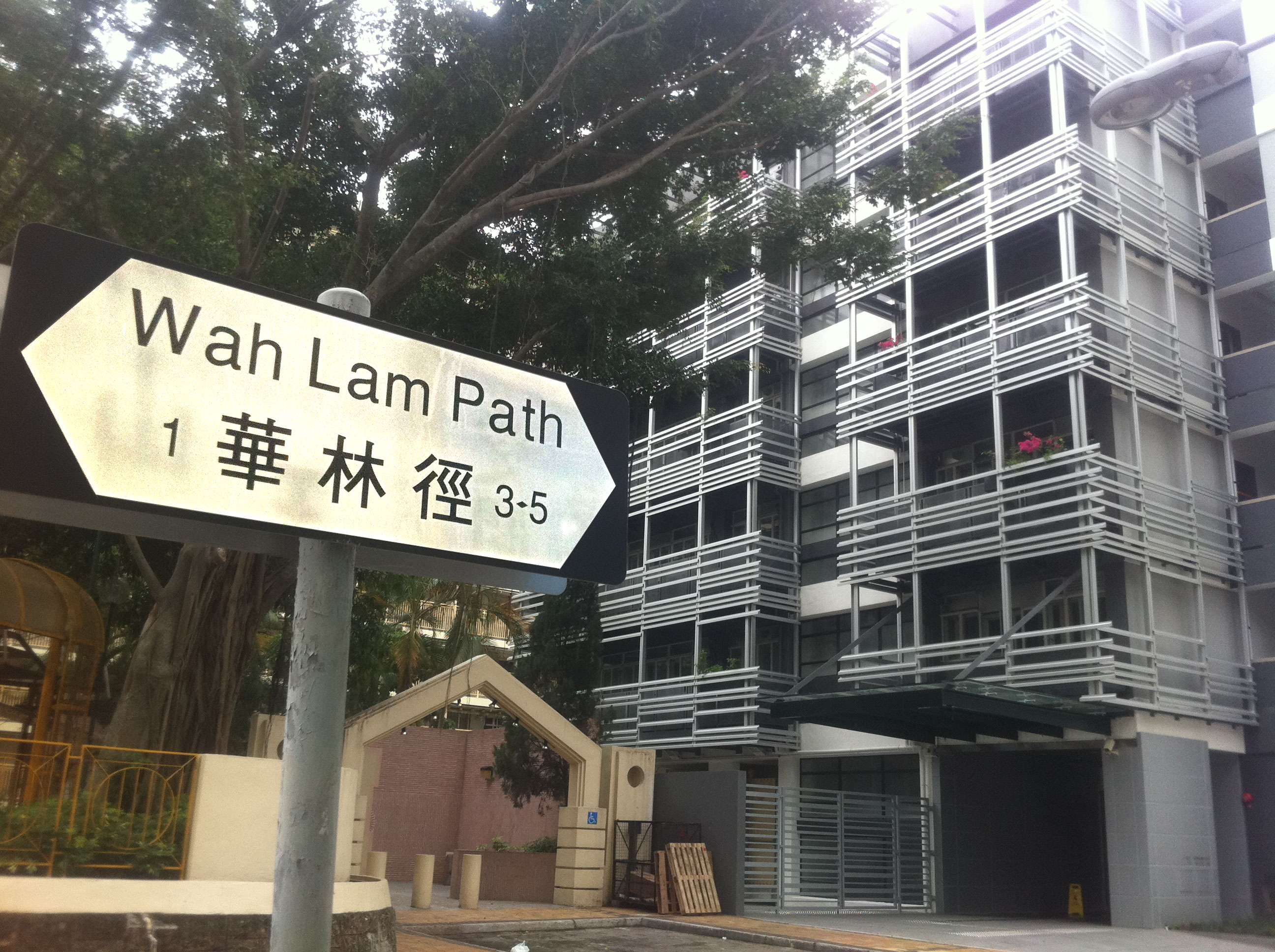 華林徑 Wah Lam Path sign HKU 明德學院